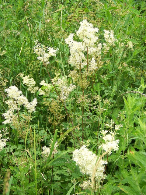 Meadowsweet (Filipendula ulmaria), Higher Marsh The tiny creamy flowers are sweetly scented from early summer and the leaves are also subtly fragrant. Naturally found in boggy areas or damp woodland, ditches and hedgerows. Meadowsweet is also known as Queen of the Meadow. It contains salicylic acid from which aspirin was first derived. Nowadays aspirin is produced synthetically but meadowsweet is still taken as an infusion for rheumatic and arthritic complaints and as a pleasant and gentle sedative. A tea made flowers of meadowsweet and elder is good to take at the onset of a cold or feverish condition, so it is worth drying the flowers for winter use. The flowers and leaves can be used in salads and soups. Folklore claims that where meadowsweet grows there are no snakes, which can also mean, therefore, that there is no evil.